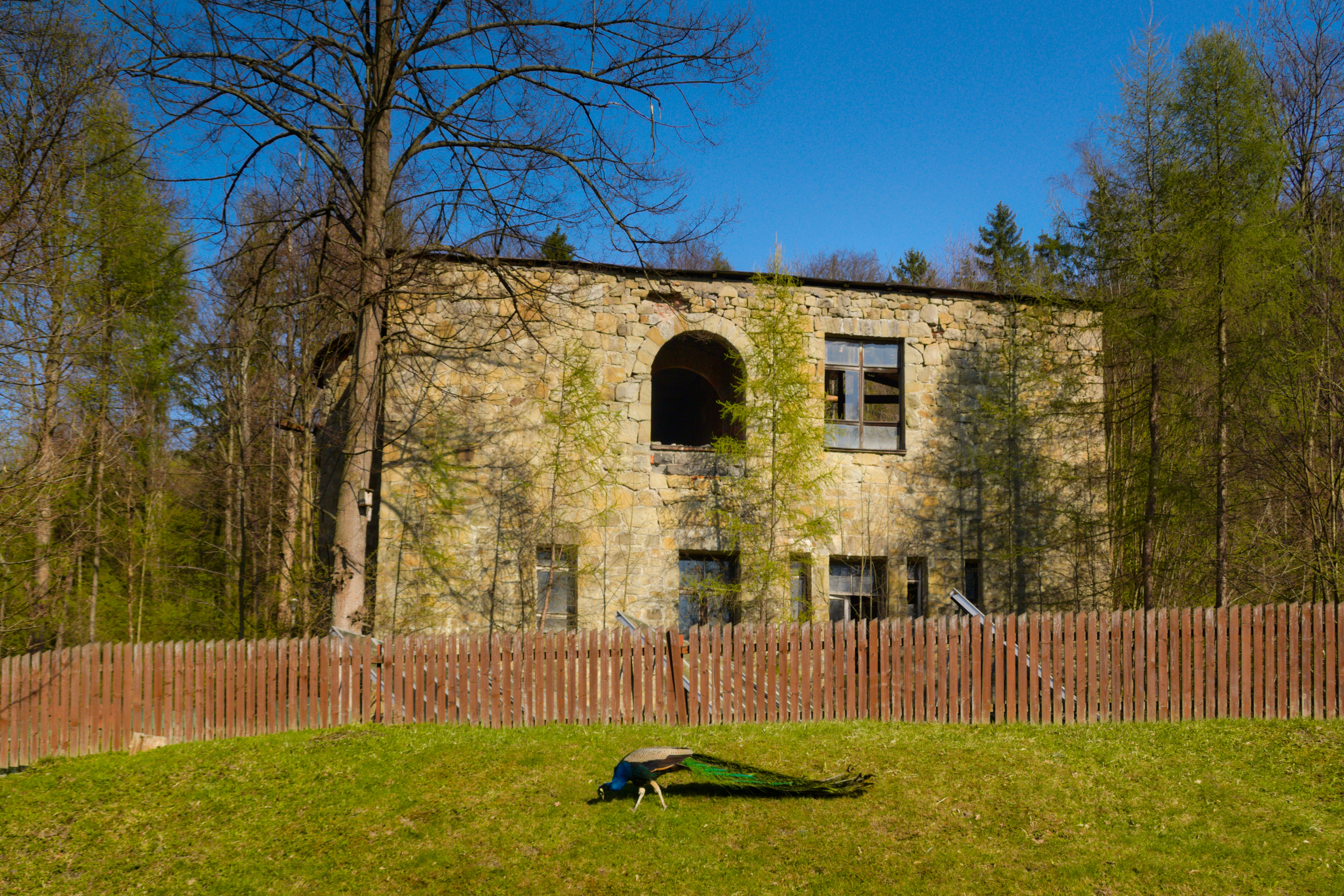 palace stone outbuilding in Rajcza